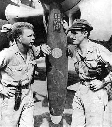 Maj. Thomas B. McGuire Jr. with Richard I. Bong. Majs. Bong and McGuire were the top two scoring U.S. aces in World War II with 40 and 38 victories, respectively; taken Nov. 15, 1944 in the Philippines.